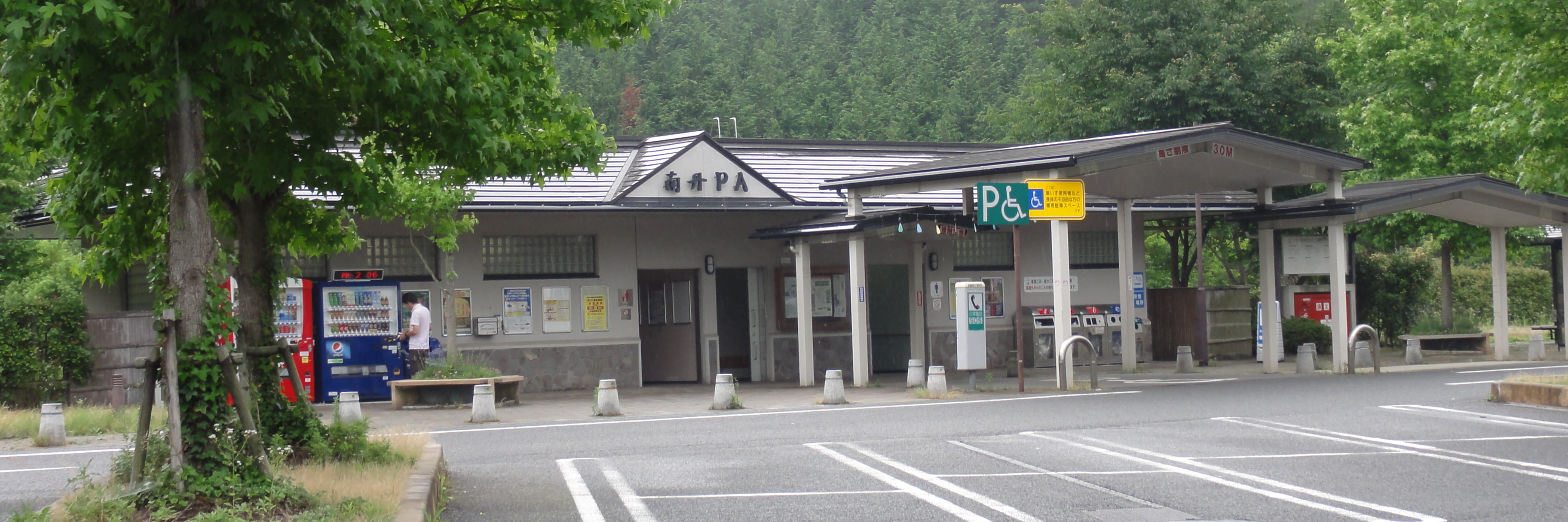 Nantan Parking Area,Kyoto prefecture, Japan